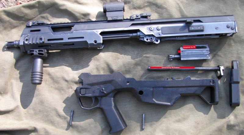 MSBS-B field stripped